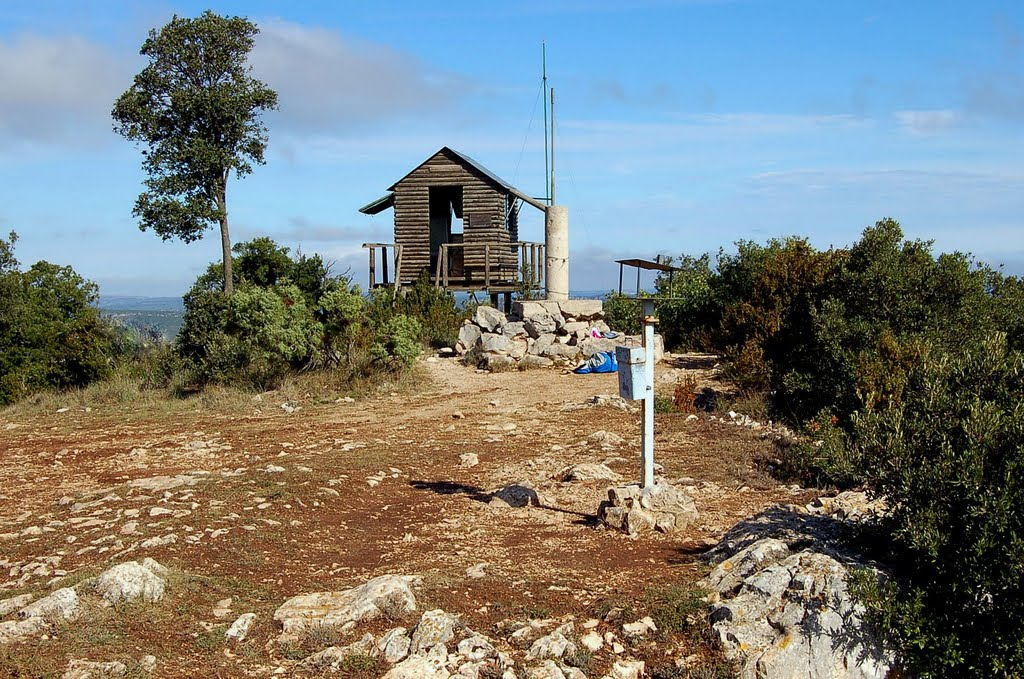 Mountain of Puig Castellar (943,3 metres).